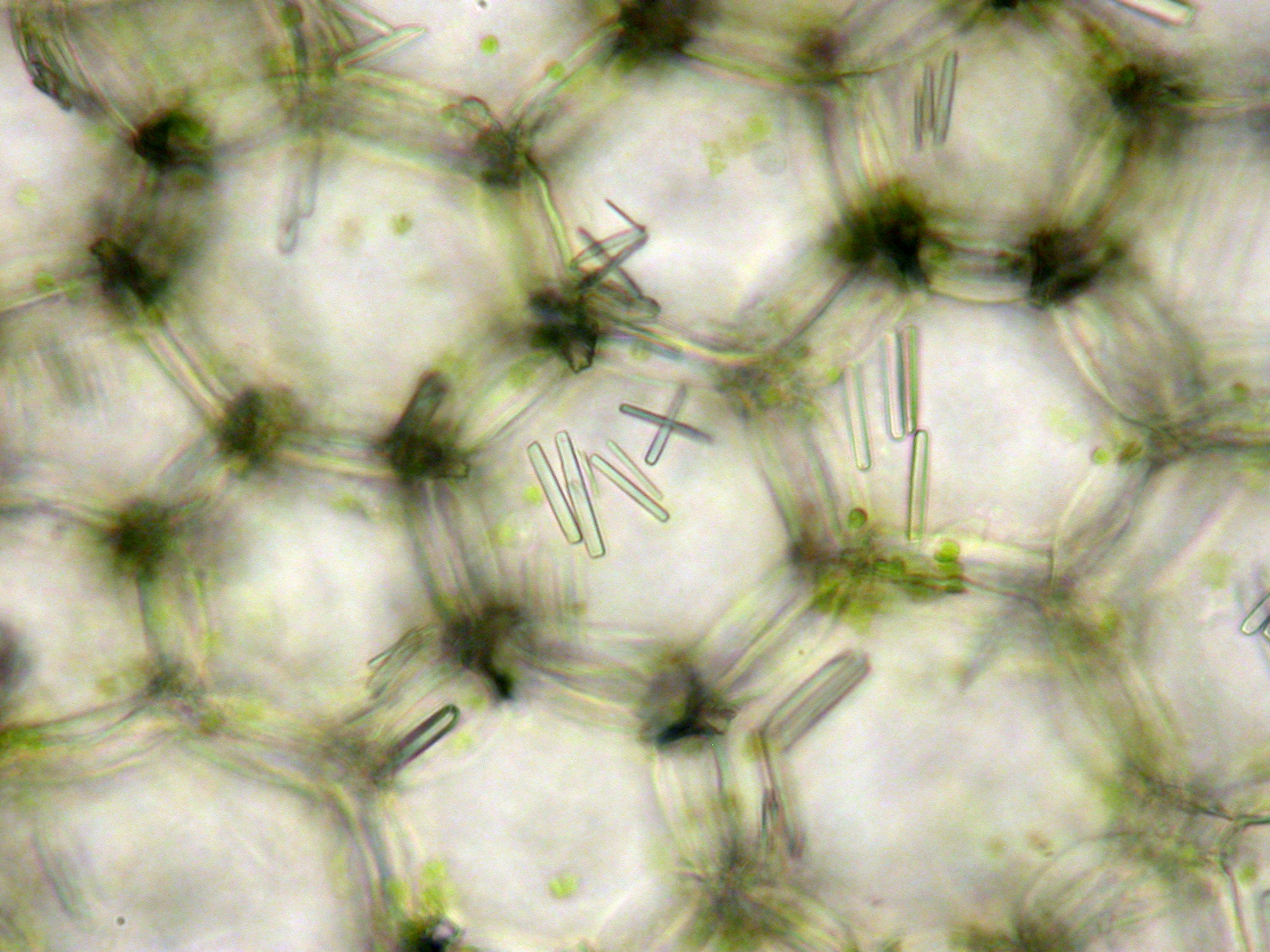 Calcium oxalate raphide crystals within the cortex area of a purple polka dot plant (Hypoestes phyllostachya)